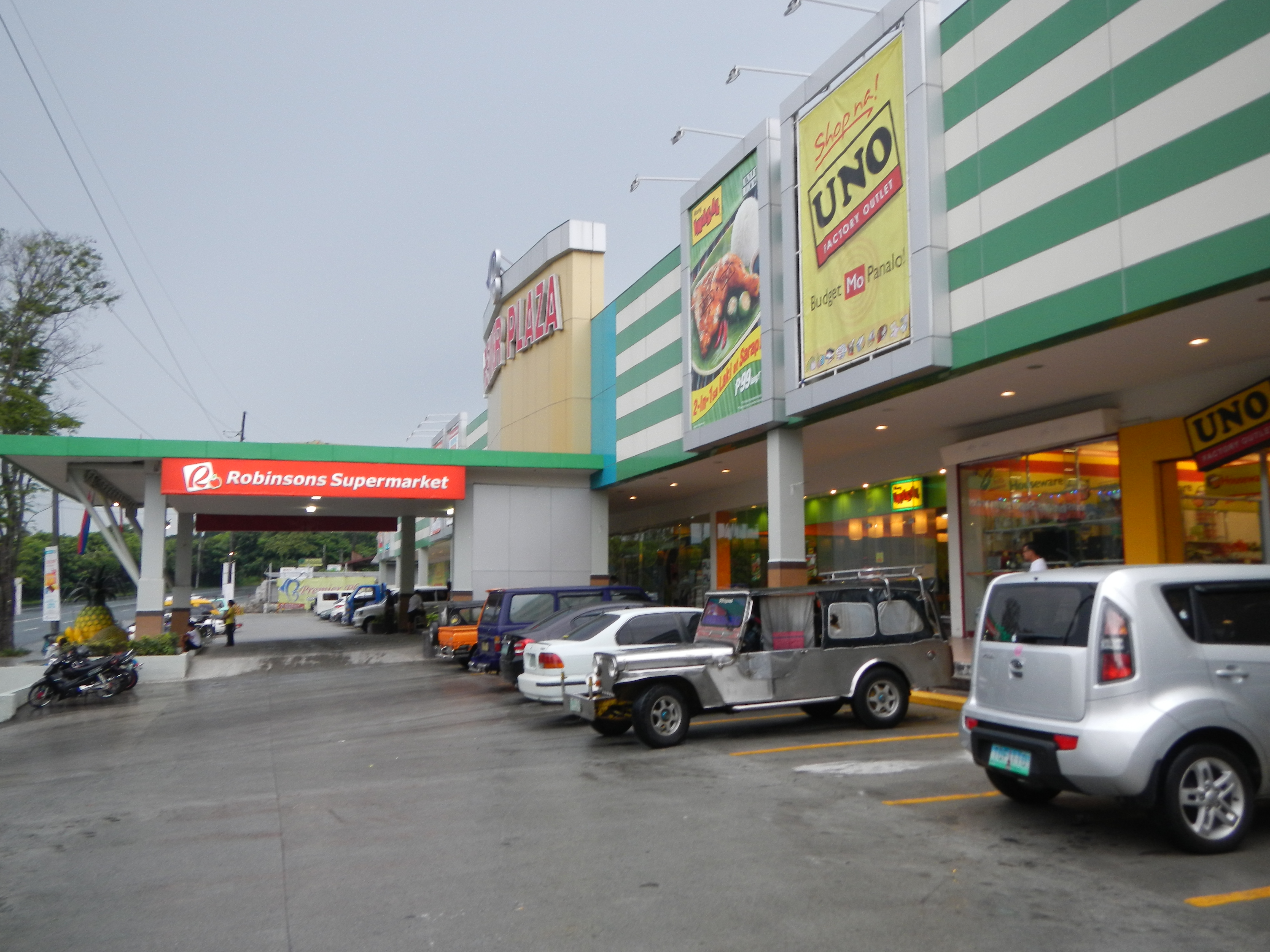 Premier Plaza Mall, Silang, Cavite[1]Robinsons Supermarket - is a supermarket chain in the Philippines, a division of Robinsons Retail Group, a subsidiary of J.G. Summit Holdings. It is a competitor of several supermarket chains in the Philippines including SM, Rustans, Ever and others. --- Silang, Cavite[2] The Municipality of Silang (Filipino: Bayan ng Silang) is a first class landlocked municipality in the province of Cavite, Philippines. According to the 2010 census, it has a population of 213,490 people in an area of 209.4 square kilometers (80.8 sq mi). Silang is located in the eastern section of Cavite. This is the location of Philippine National Police Academy and PDEA Academy.